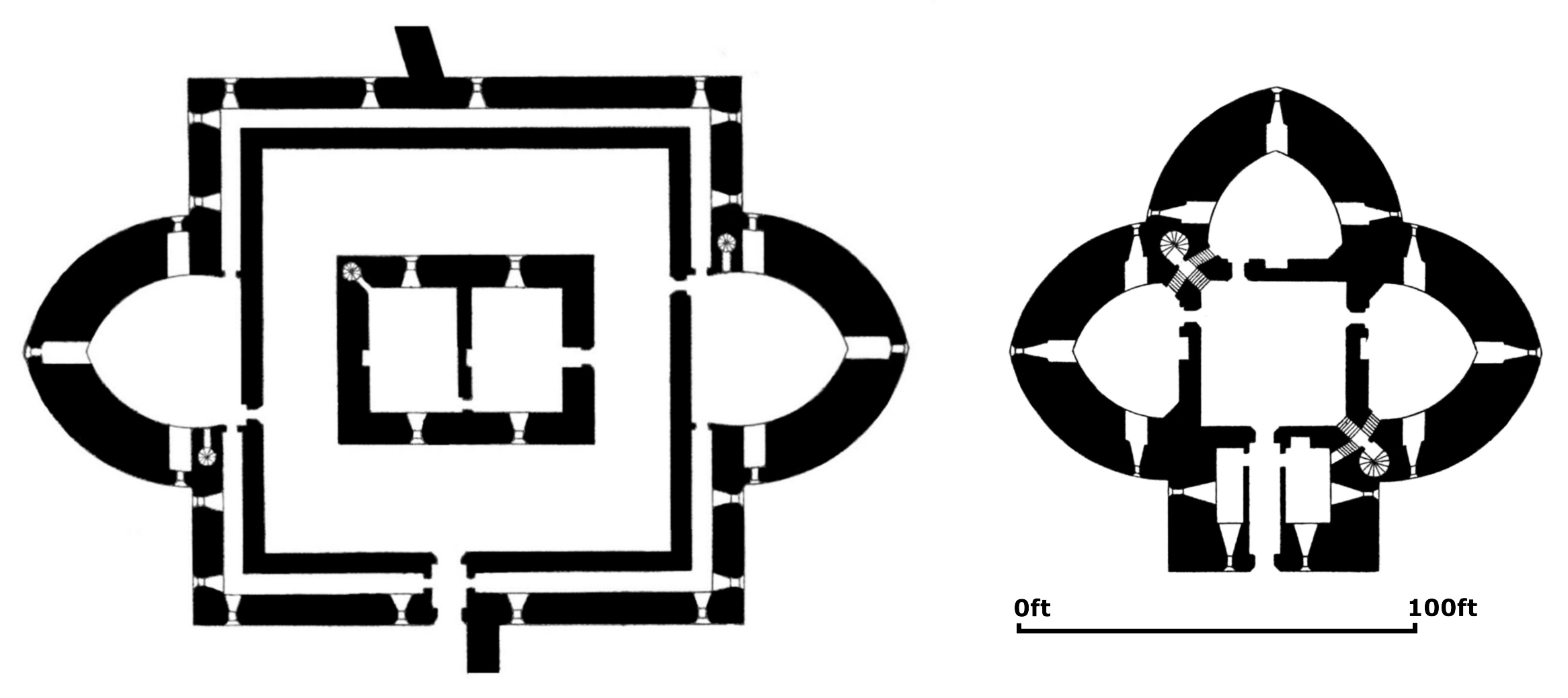 Hull Castle and Blockhouse combined plans